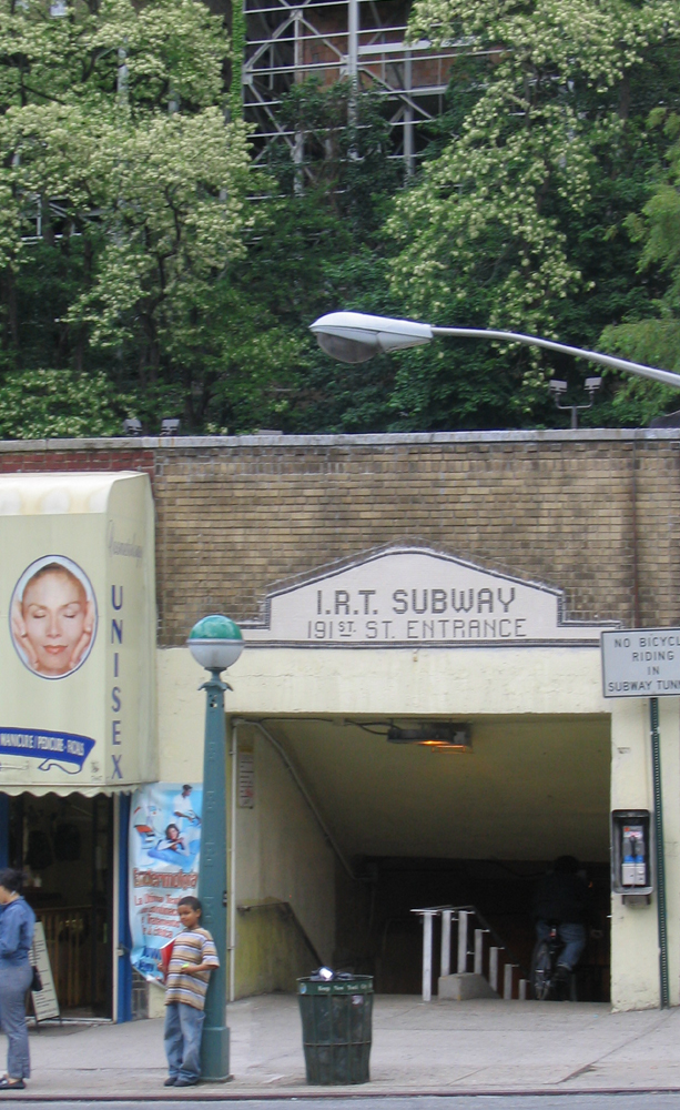 NYC Subway: 191st & Broadway Station